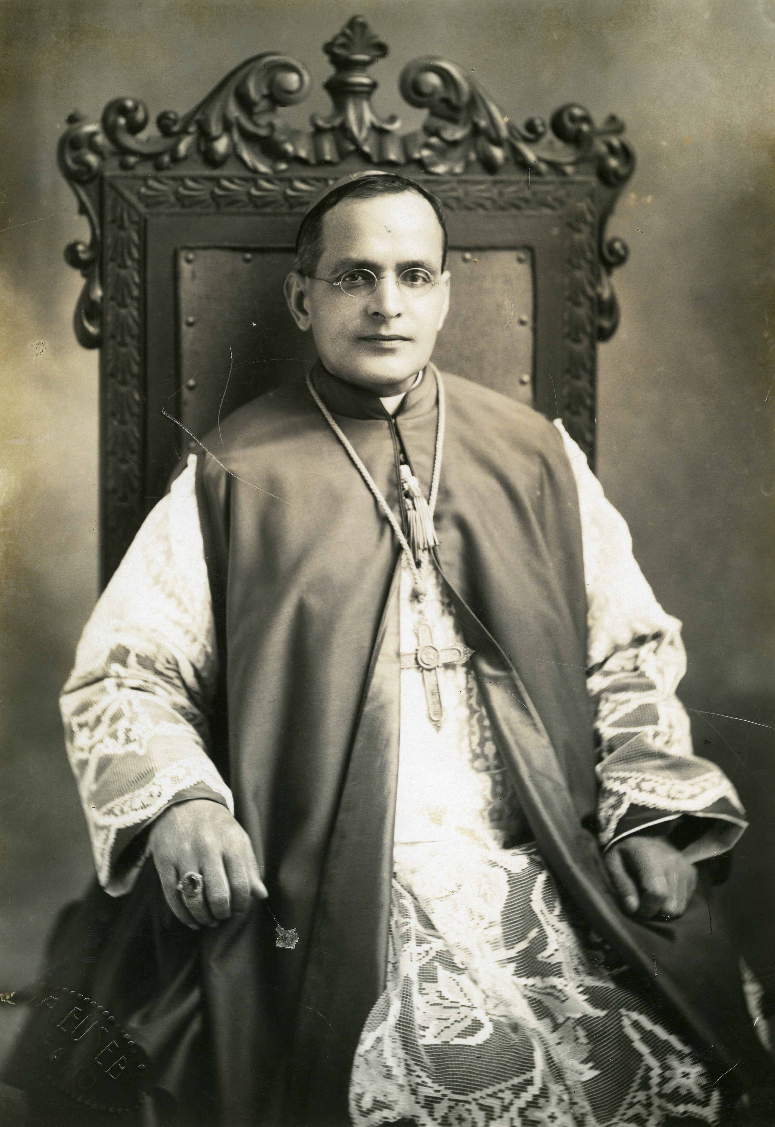 Bishop Vincenzo Del Signore